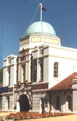 Own photo of Taronga Zoo's Top Entrance built about 1913 at Bradleys Head